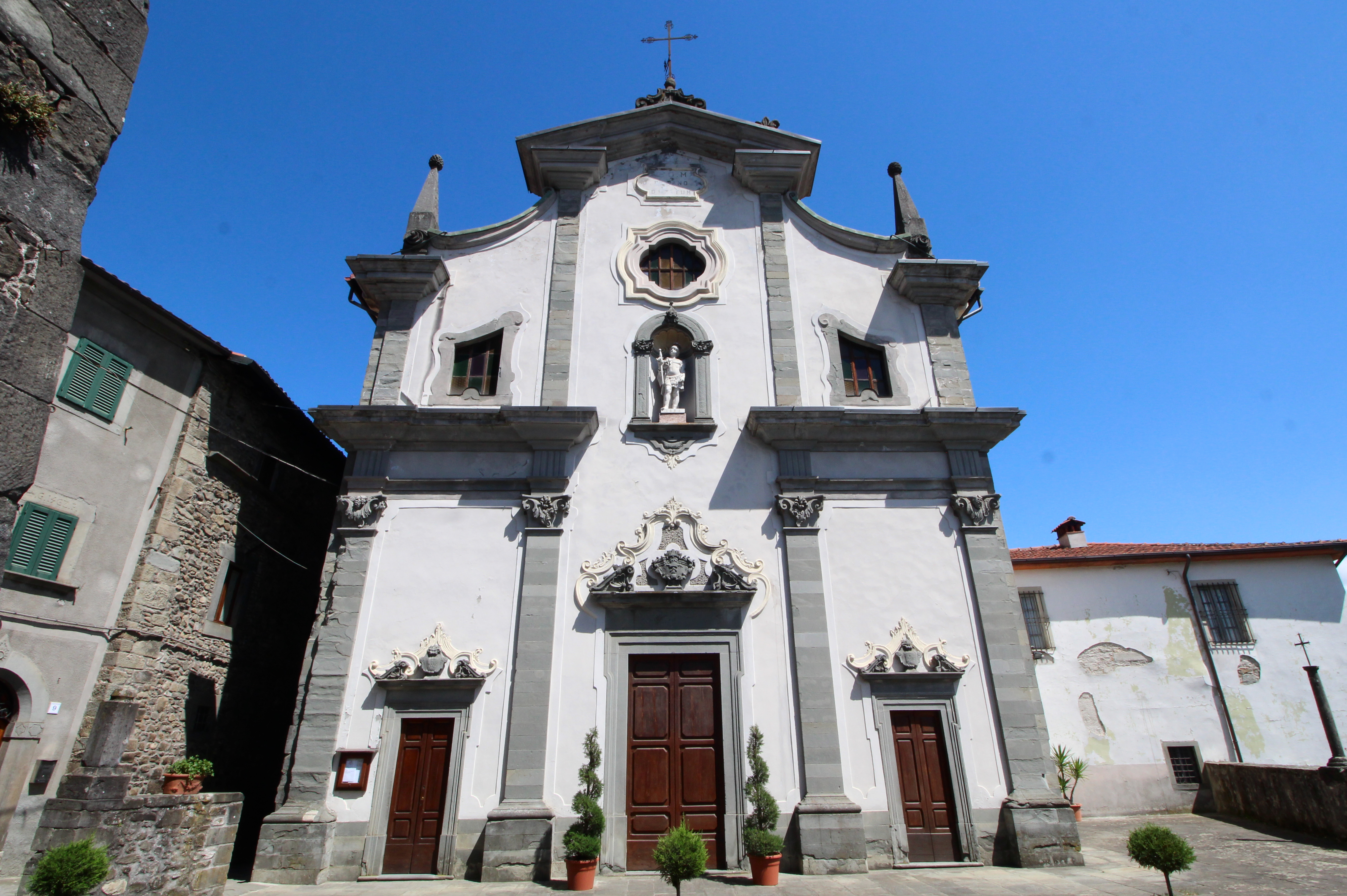 Church San Romano, San Romano in Garfagnana, Province of Lucca, Tuscany, Italy